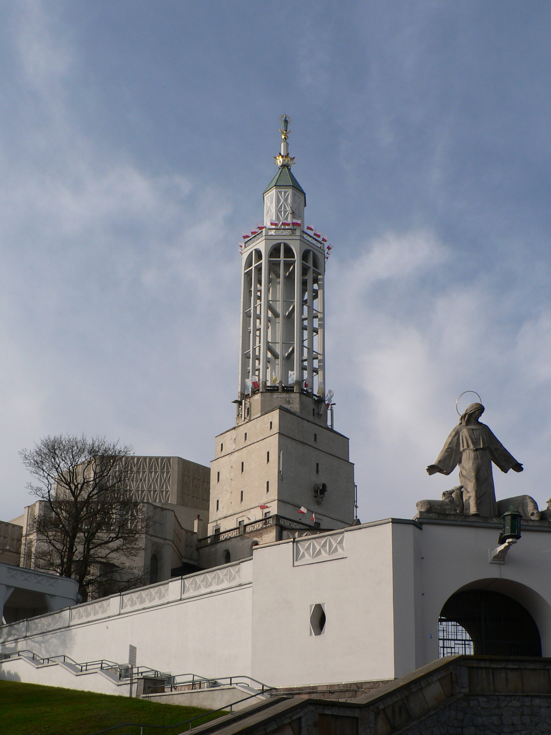 Church of St. Roch in Białystok